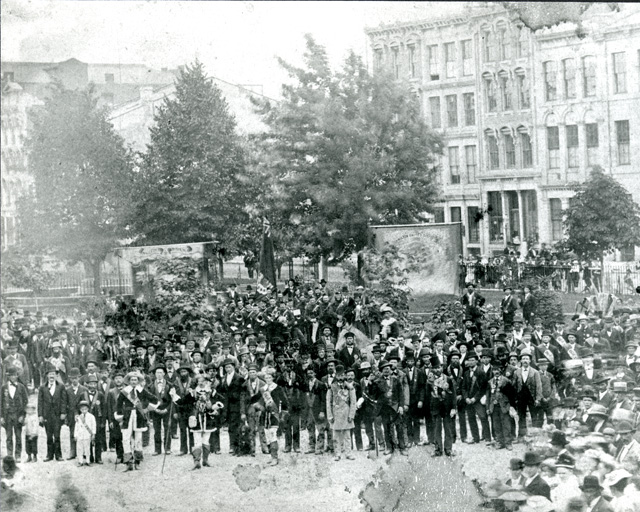 The first Orange lodges formed in Hamilton in the 1840s and held regular street parades to celebrate King William’s victory at the Battle of the Boyne on July 12, 1690 when he defeated the Jacobites and solidified British control. 058-32022191133517